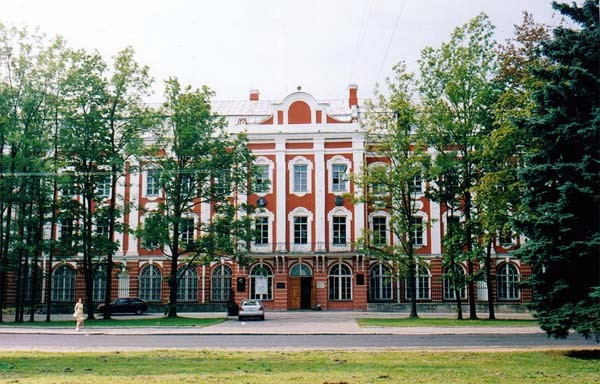 The Twelve Collegia building of Saint Petersburg State University